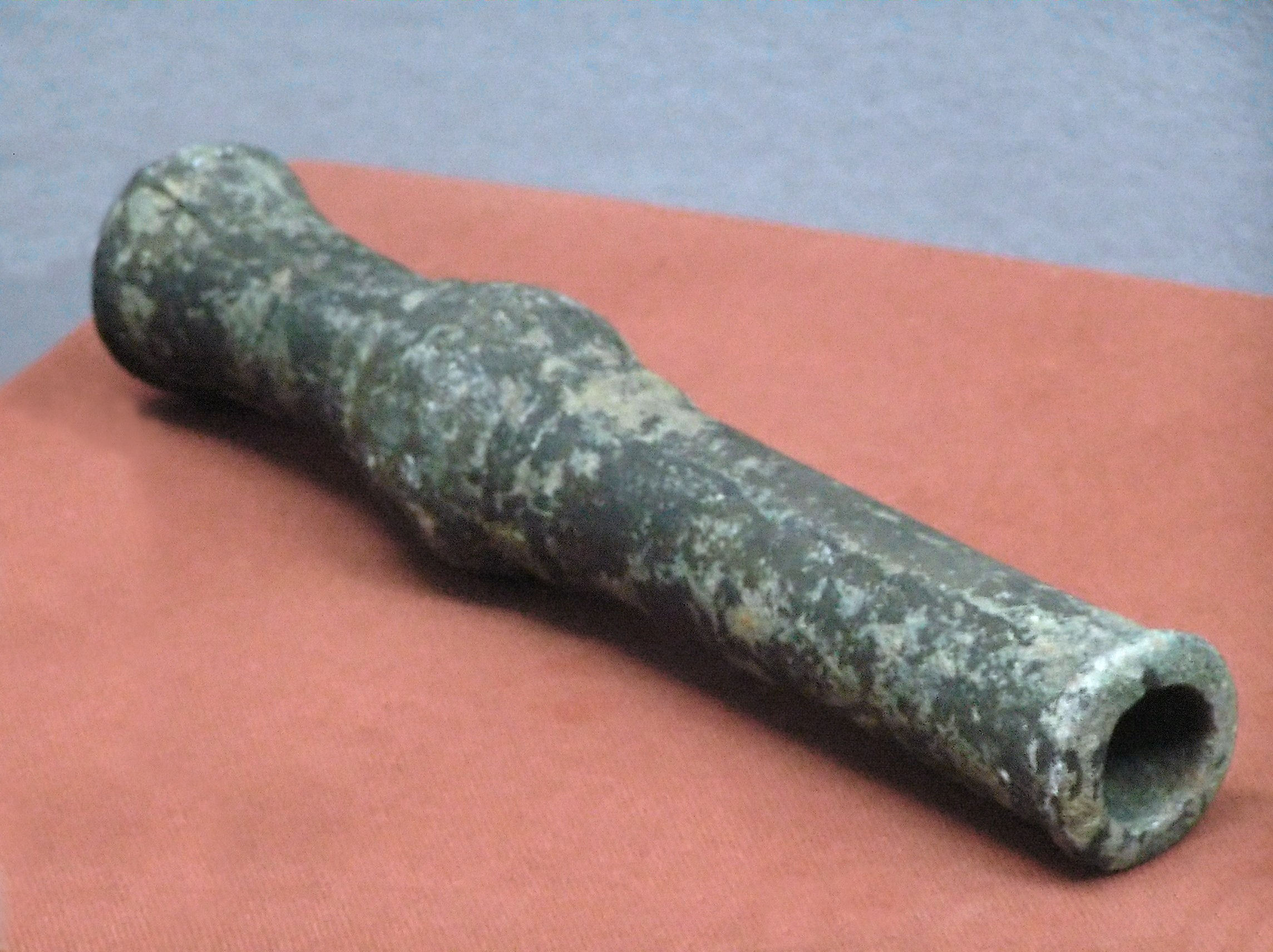 old Chinese Hand Cannon on display at the Shaanxi history museum in Xi'An, China. The placard reads "Bronze firearm, Yuan dynasty (1271-1368 ACE)". Photo taken by Yannick Trottier, 2007.